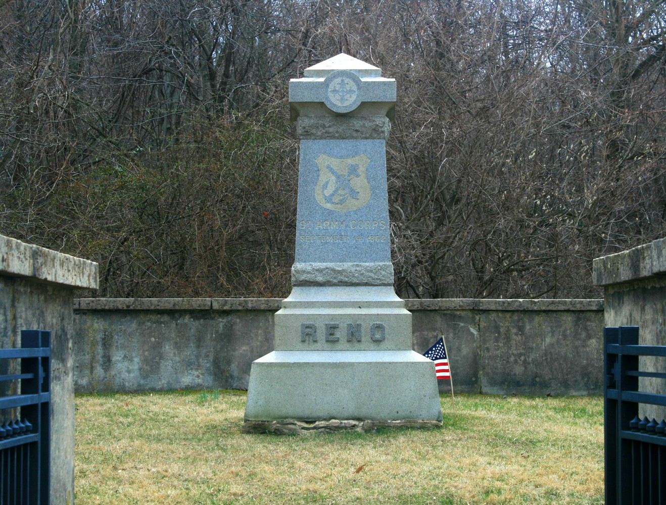 Jesse Reno monument in South Mountains